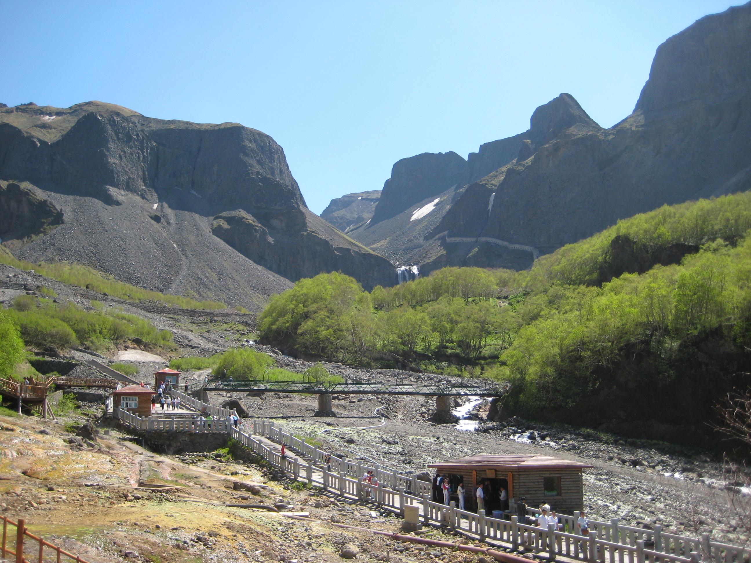 North slope of Changbai Shan, Jilin province, China